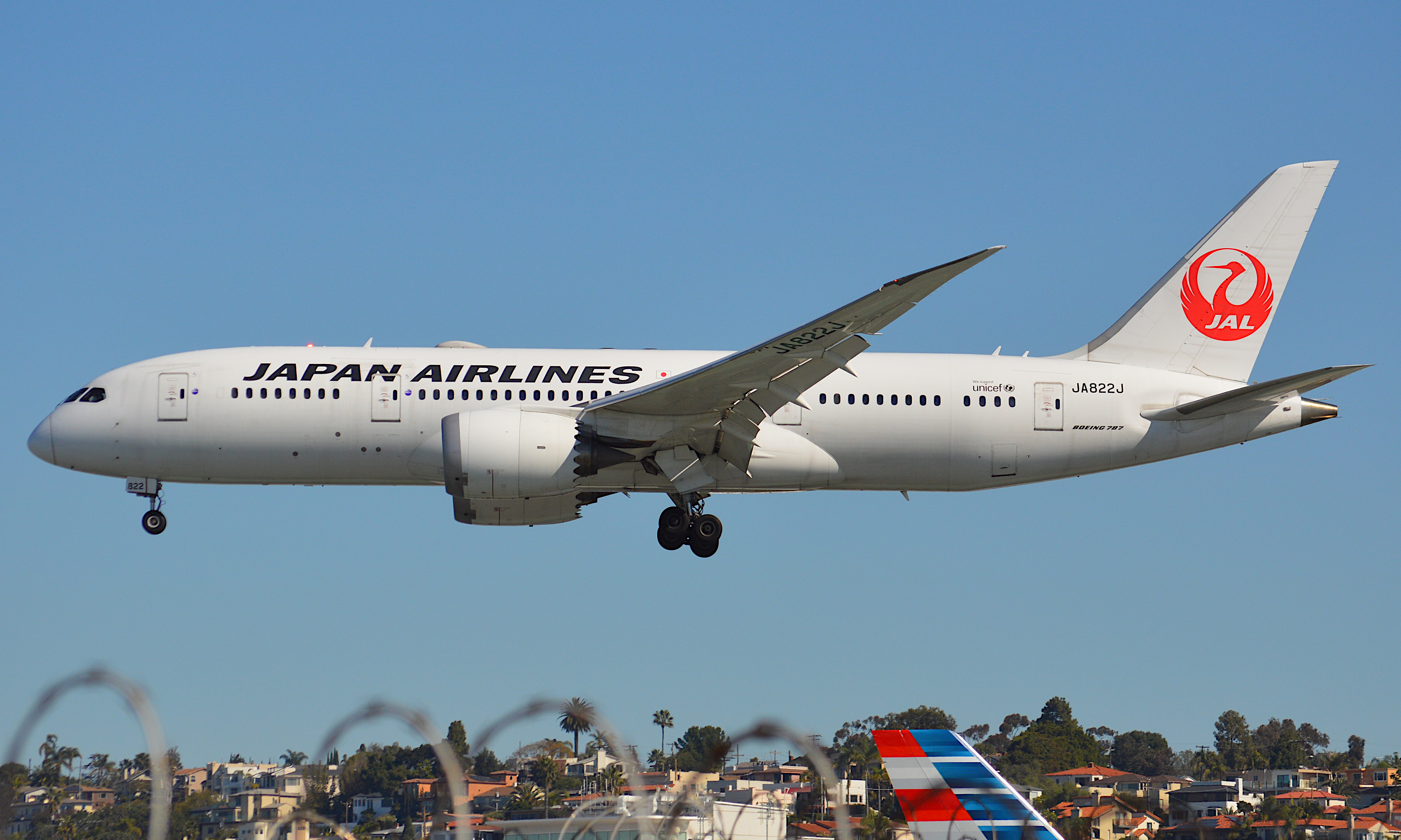 Japan Airlines Boeing 787-8 JA822J landing on runway 27, San Diego International Airport, February 23, 2019. The American tail is a Boeing 757.